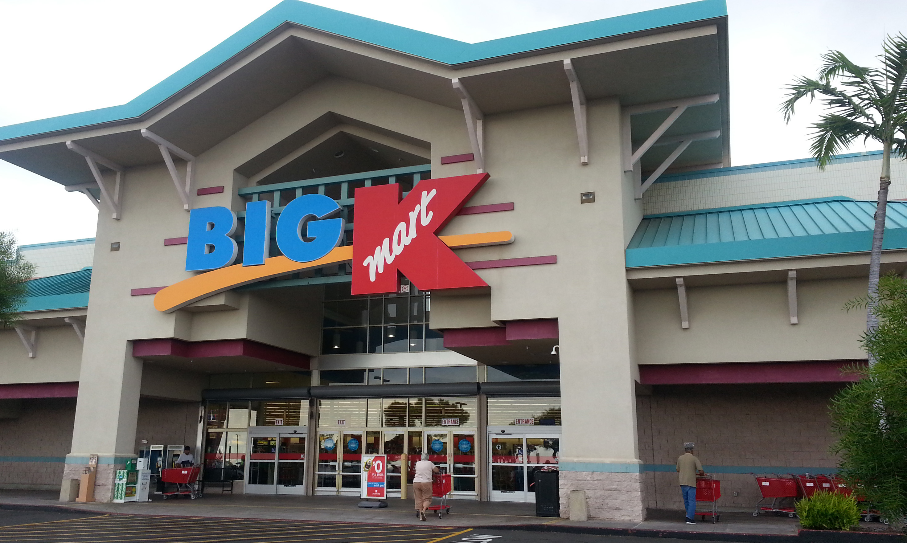 Kmart store in Kailua Kona, Hawaii, USA